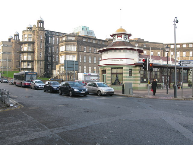 Old Victoria Infirmary The Victoria Infirmary is the elegant building towards the back of the picture at the corner of Battlefield Road and Grange Road. The smaller building in the foreground is the Battlefield Rest Restaurant which is situated on a triangular traffic island.